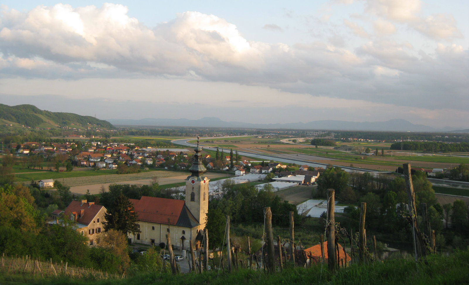 Malečnik in front, Celestrina at back, villages in Slovenia